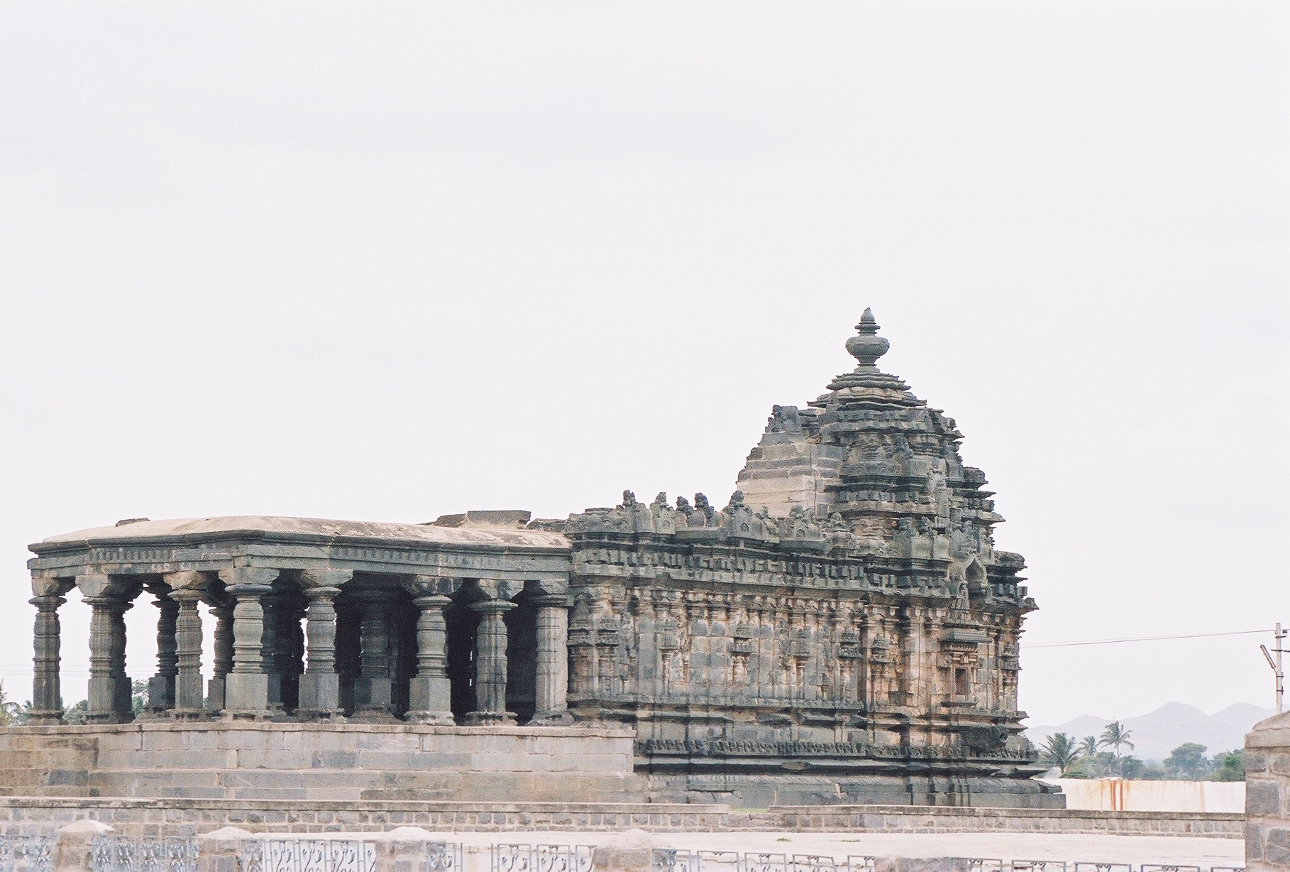 This photograph was taken by me in the Naneshvara (also spelt Nanesvara or Naneshwara) temple at Lakkundi in the Gadag district of Karnataka state, India. The temple is a 11th century Western Chalukya empire construction.